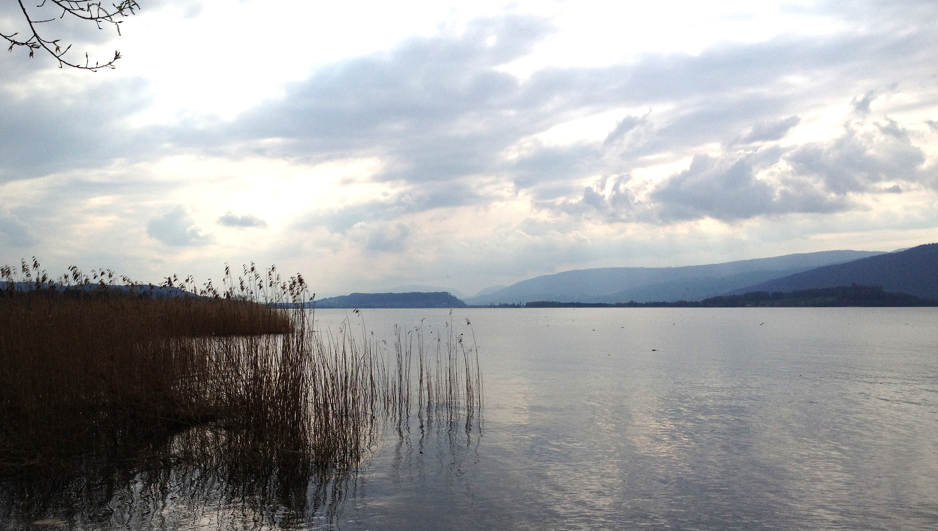 Lake Biel between Hagneckkanal (mouth of Aare) and Gerolfingen. Bird sanctuary and nature reserve.